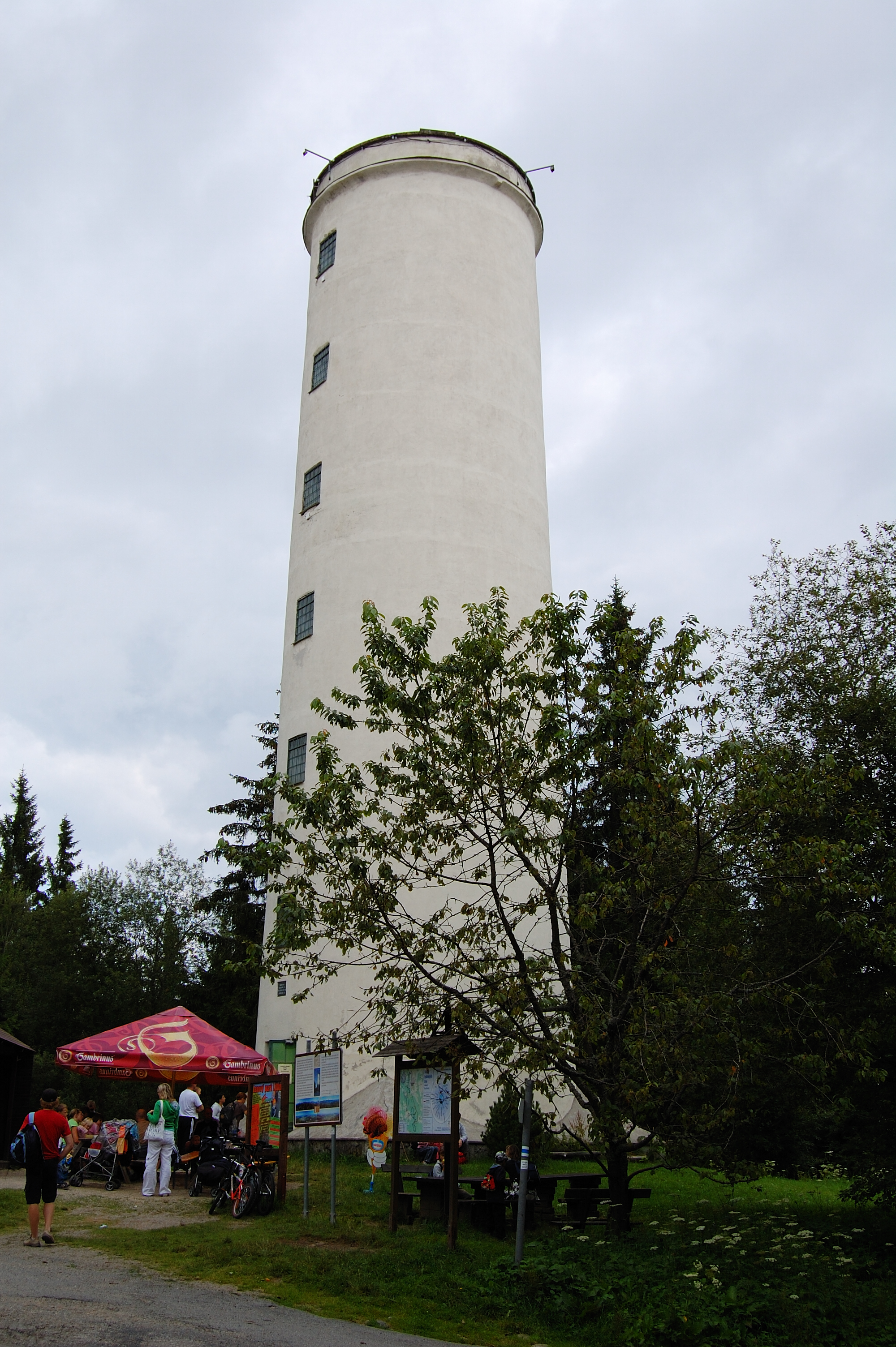 An observation tower atop the Libín mountain, Czech Republic.